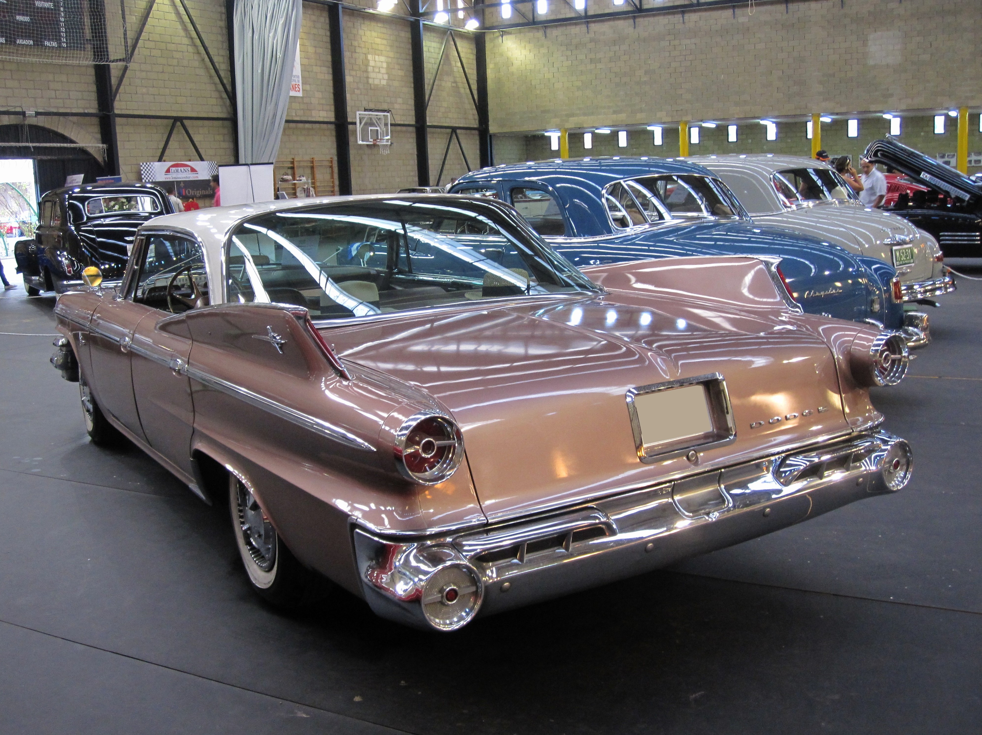 1960 Dodge Polara 4-Door Hardtop So nice... Registered in Spain in 1969, imported quite early! Lucky owner.